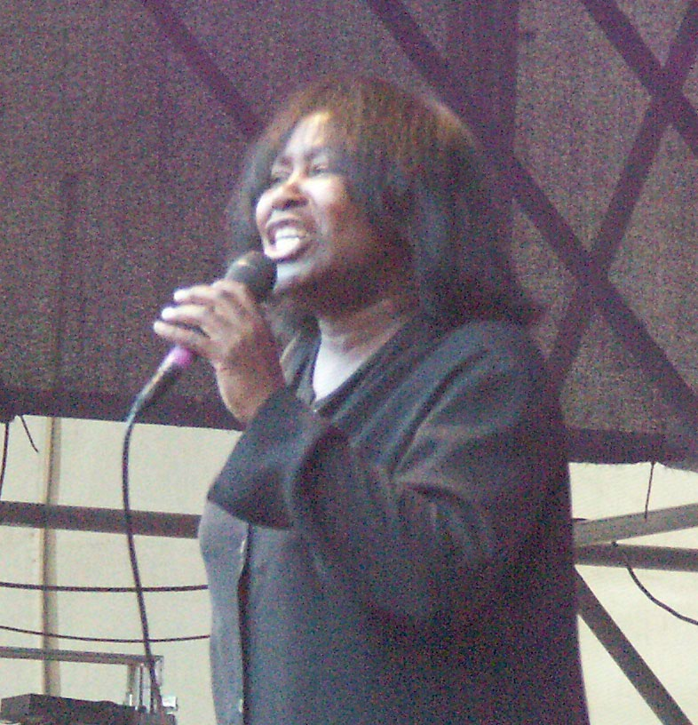 Joan Armatrading, a British singer, songwriter, and guitarist, on the 33rd Bardentreffen world music festival in Nürnberg, 1-3 August 2008